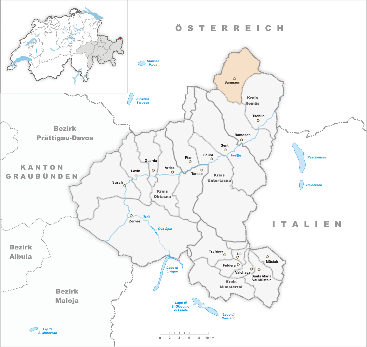 Municipality Samnaun